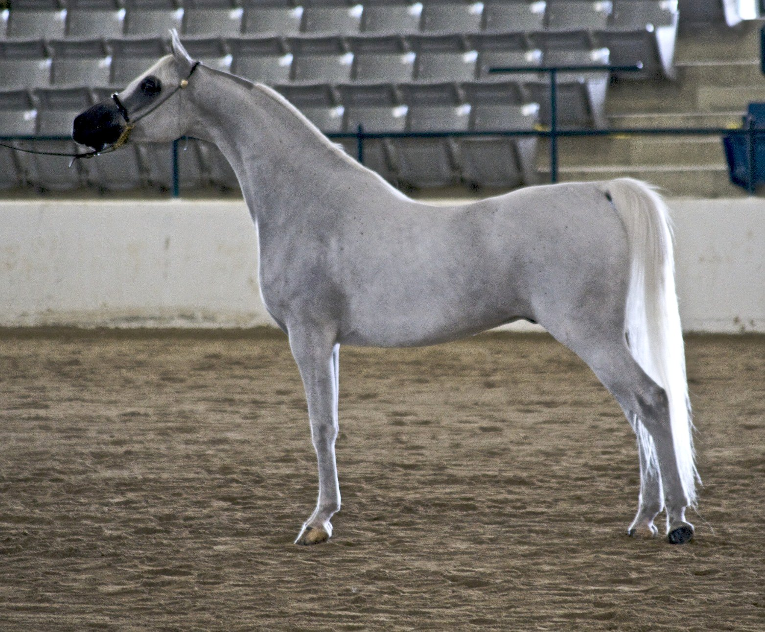 1/160 f 5.0 ISO 2000